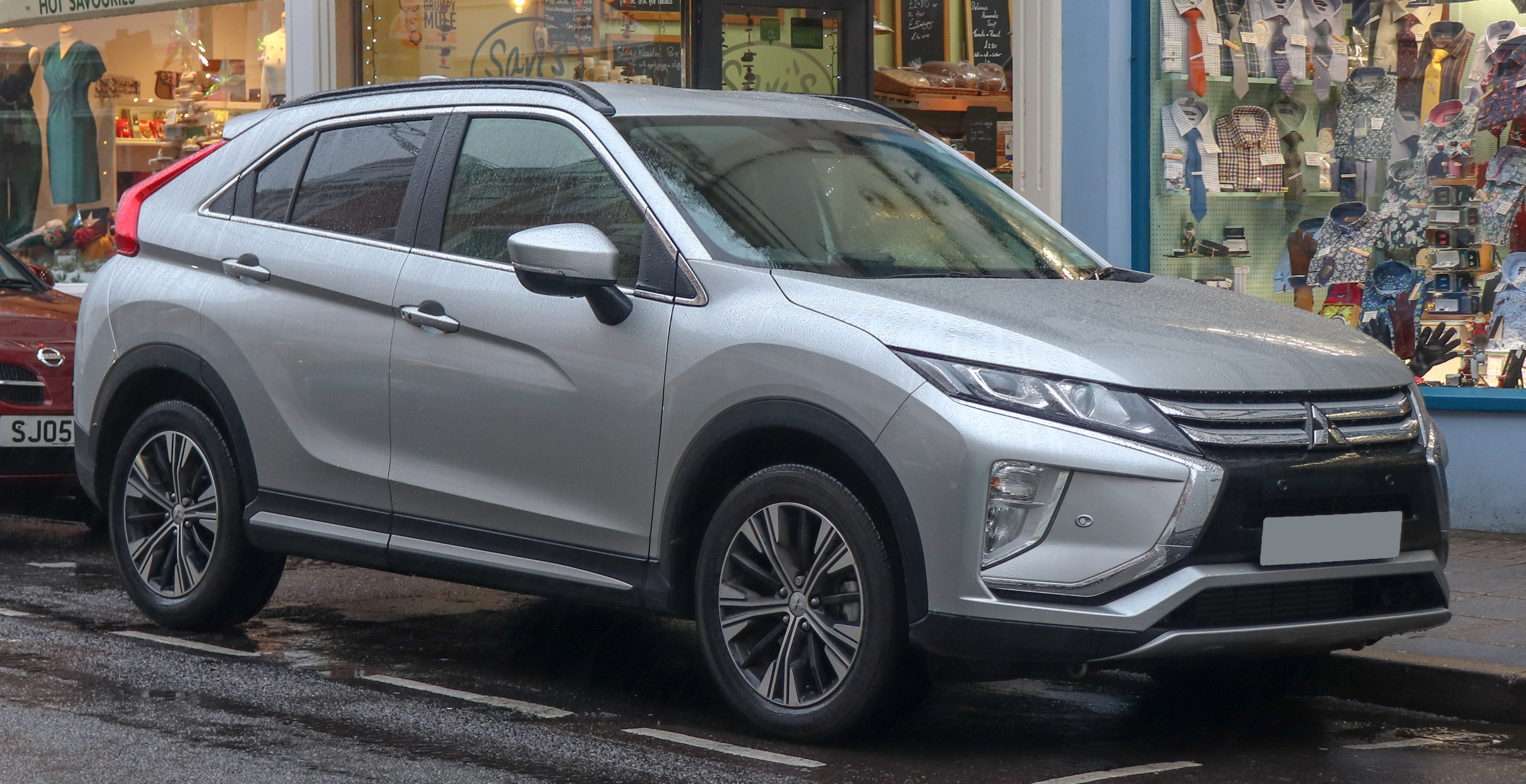 2018 Mitsubishi Eclipse Cross 3 4X2 1.5 Front Taken in Leamington Spa